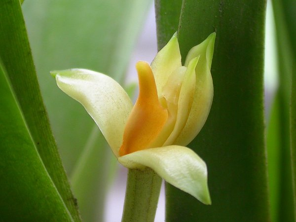 Heterotaxis crassifolia